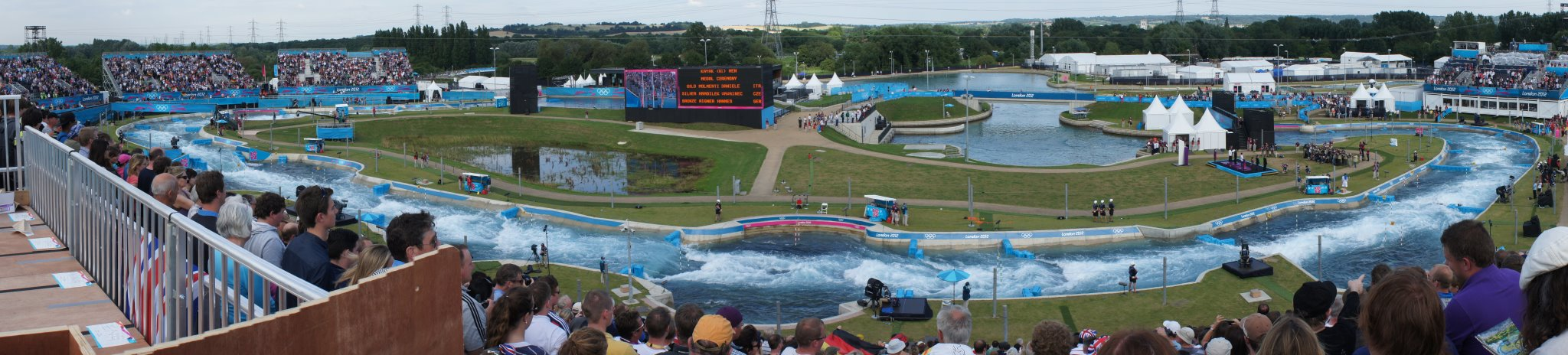 This picture is of the Lee Valley White Water during the London 2012 Olympic Games